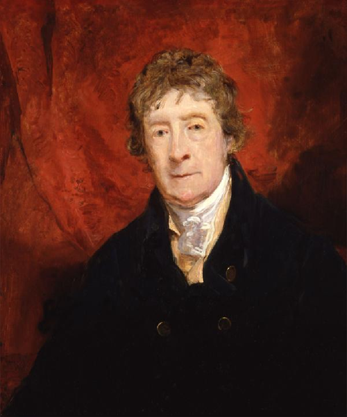 A portrait of William 'Gentleman' Smith (1730–1819) by John Jackson, circa 1819.